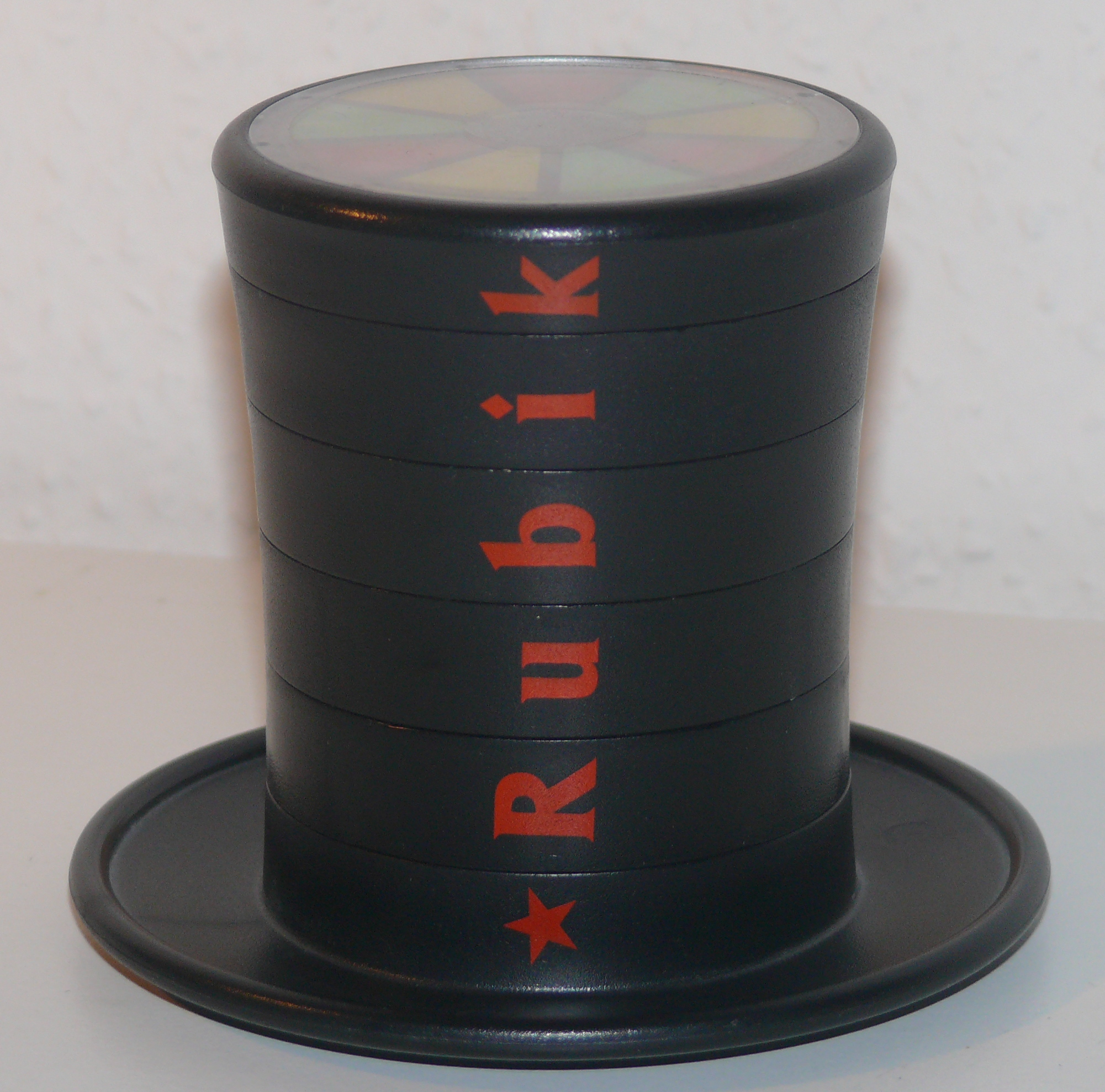 Rubik's Rabbits